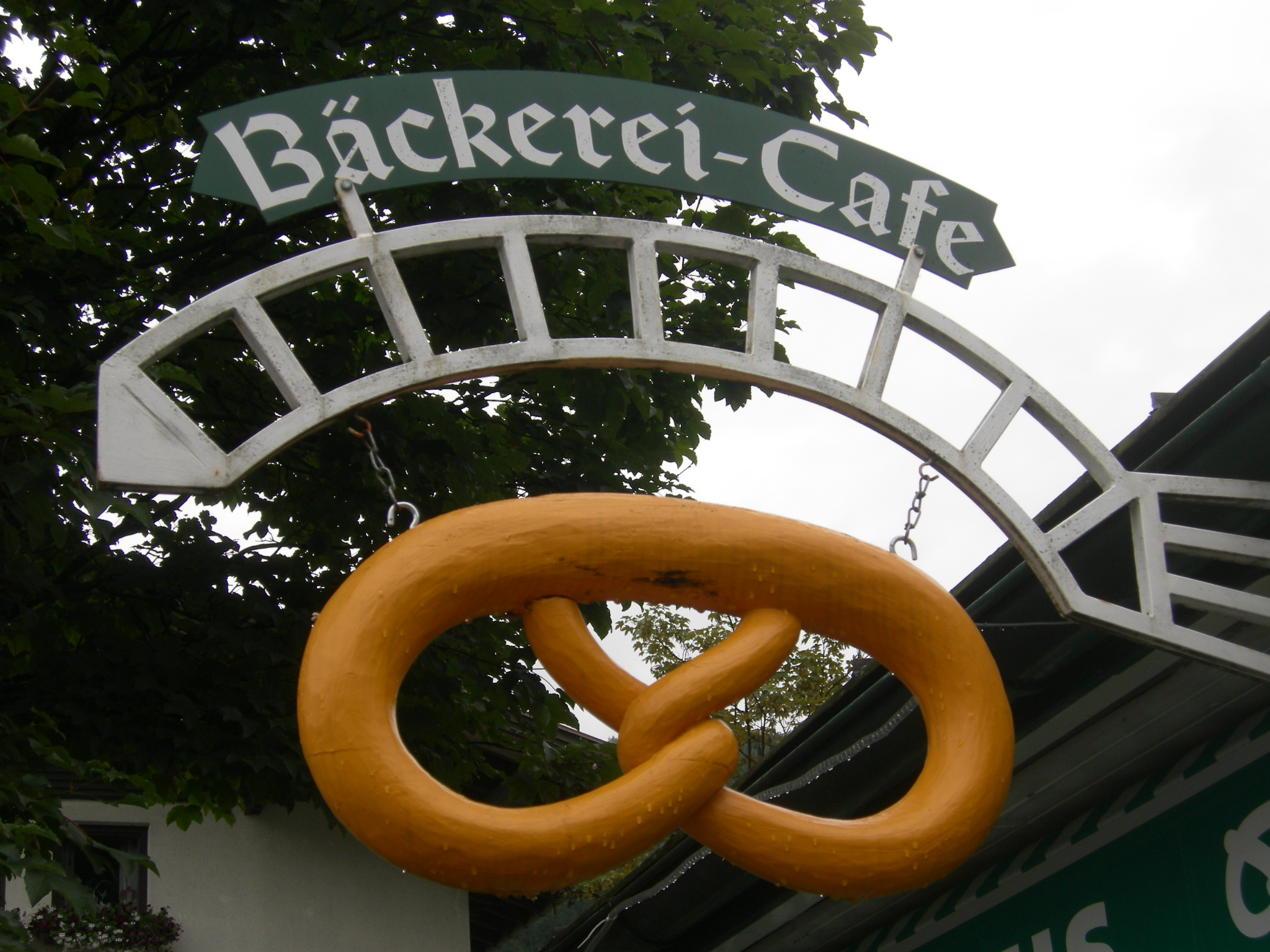 A Pretzel is the shop sign of many bakeries (Baeckerei) in Austria. Taken in Eben im Pongau